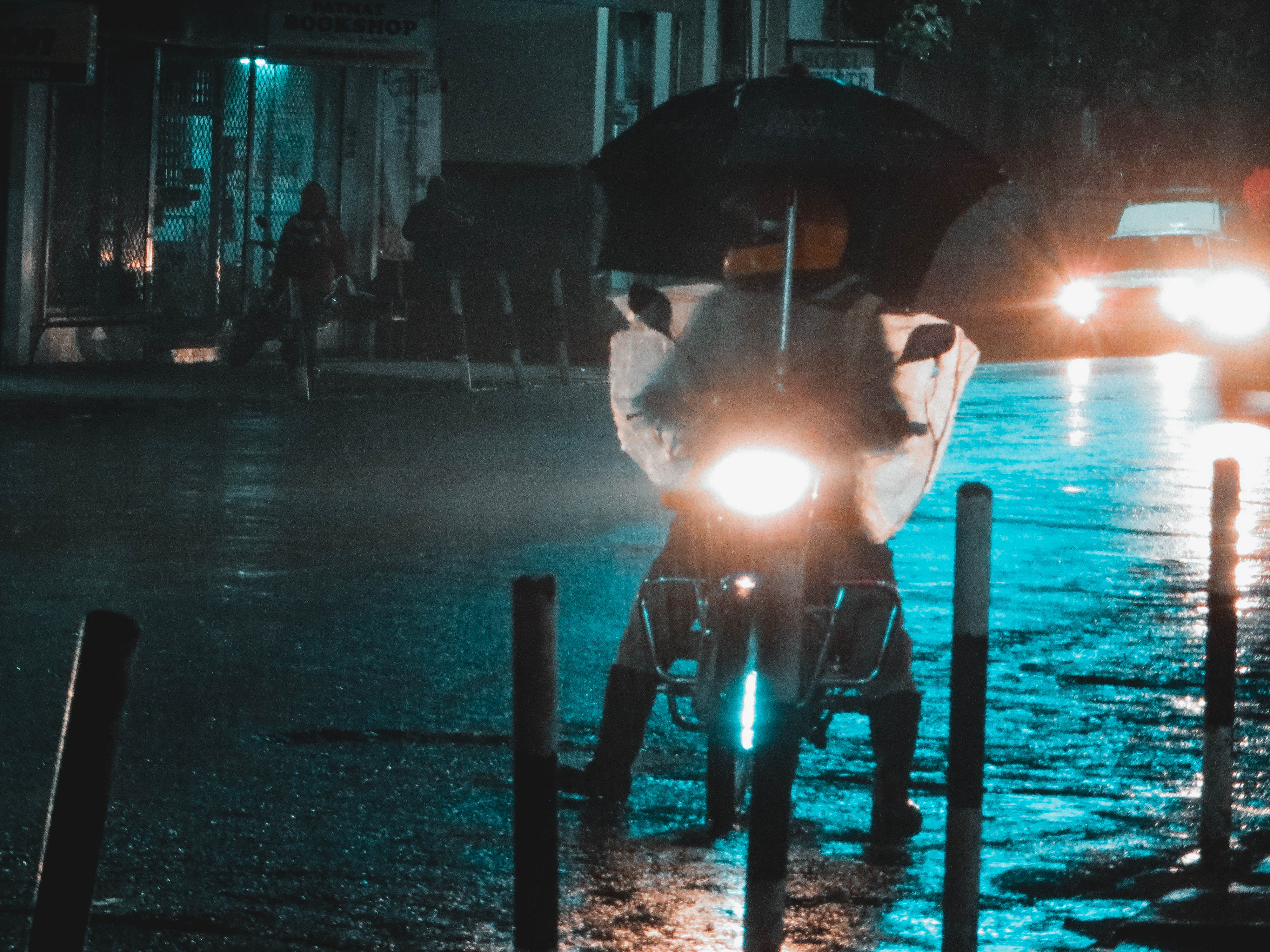 Boda boda rider making a stop on a rainy day This is an image with the theme "Africa on the Move or Transport" from: Kenya